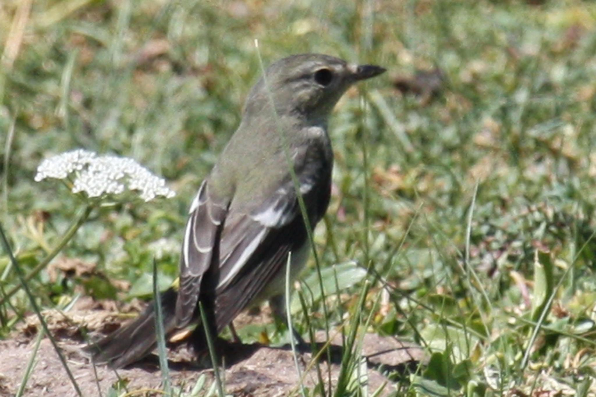 Ficedula zanthopygia aka Yellow-rumped Flycatcher, a rare bird in Mongolia and a very long way from any trees.